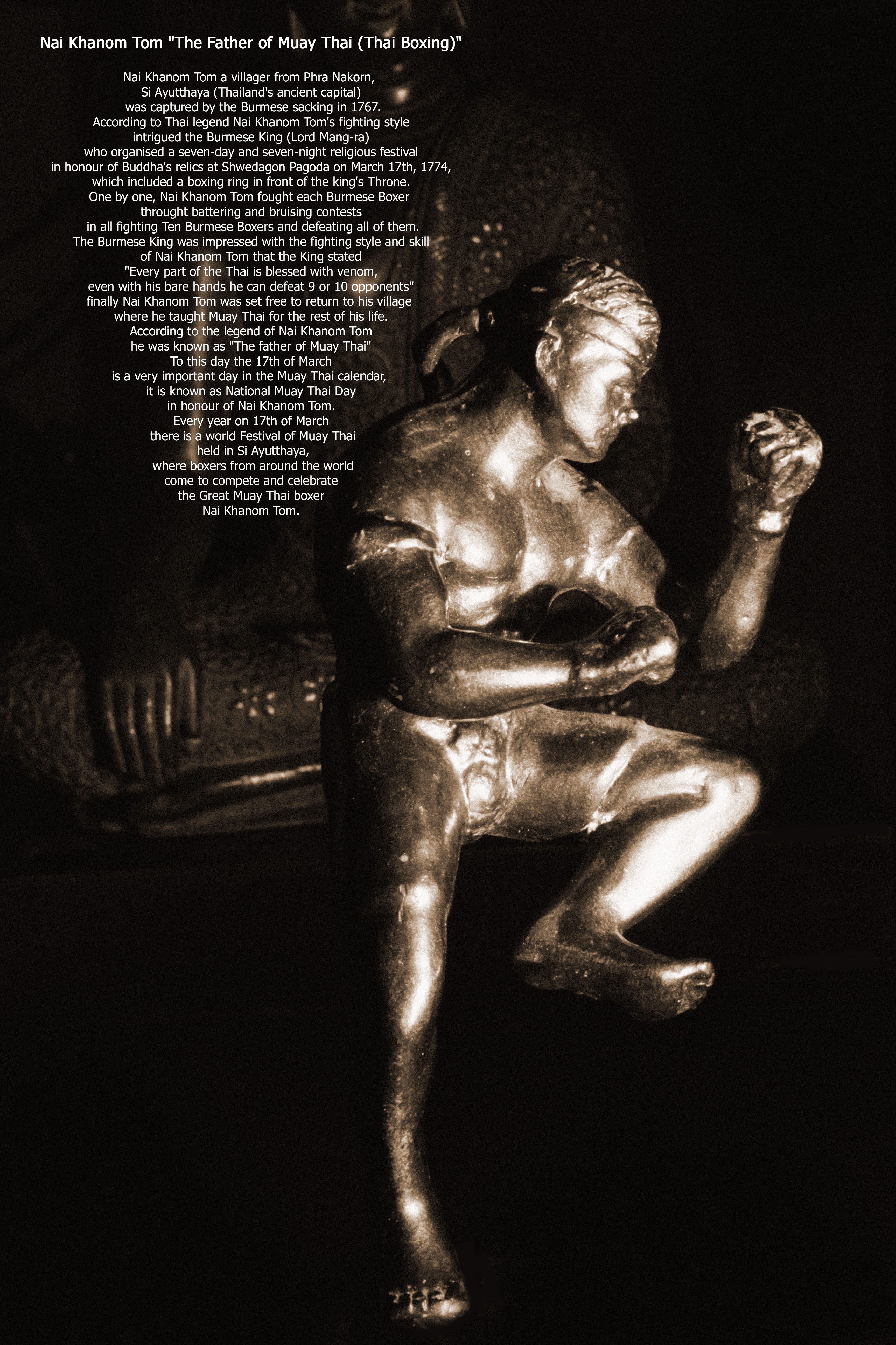 Photo the story of Nai Khanom Tom Muay Thai legend.